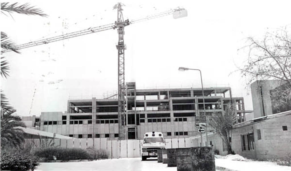 Expansion of the Salmaniya Medical Complex, in Bahrain.